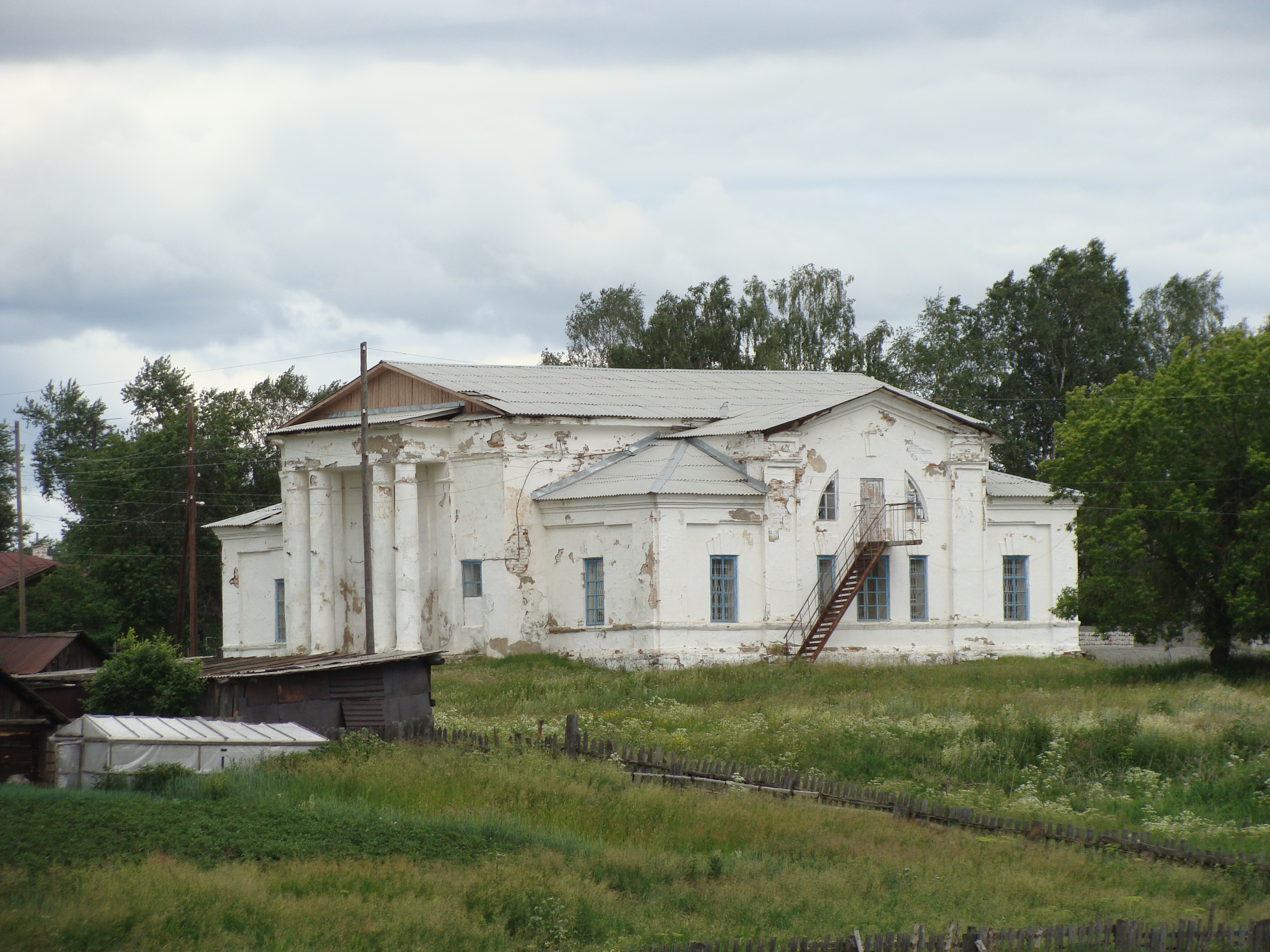 Cultur centre of Cheremisskoye